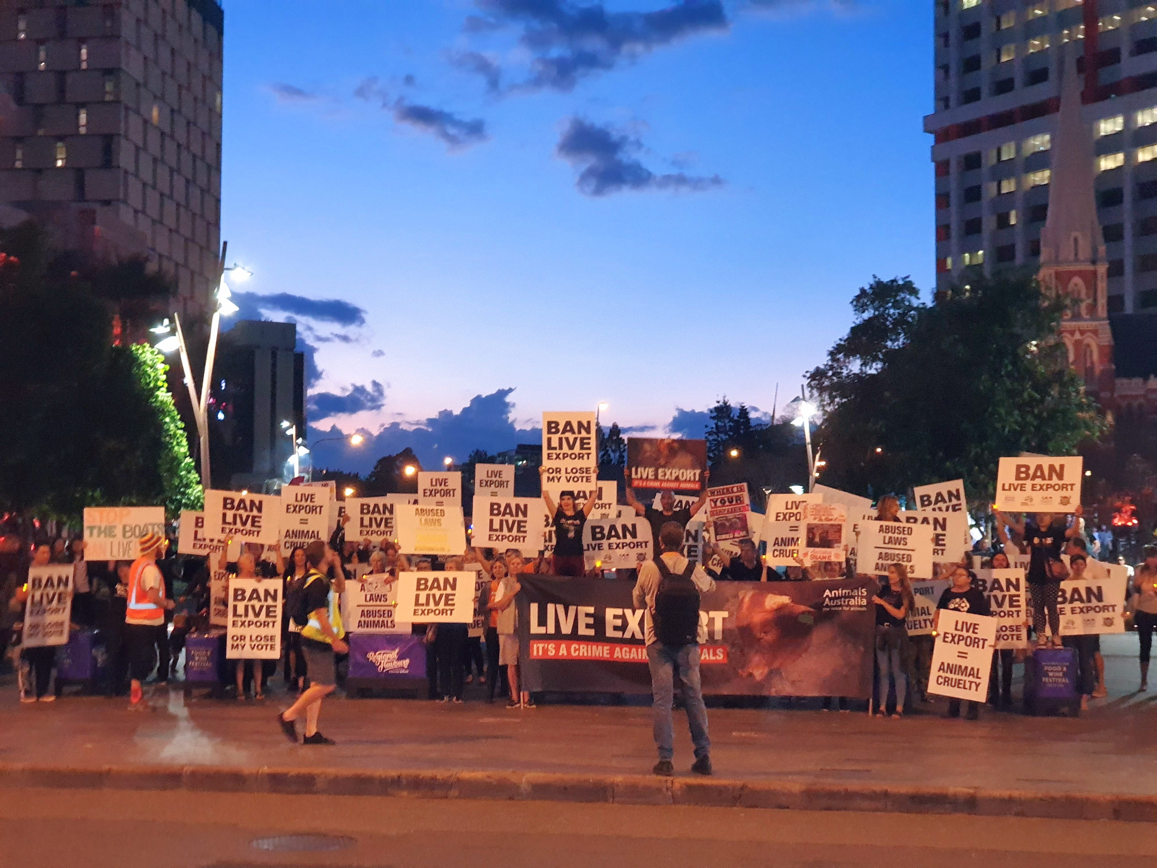 Anti Live Export Protest in King George Square, Brisbane, QLD.